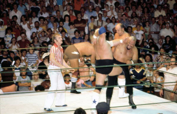 Dusty Rhodes performs his Bionic Elbow in 1979